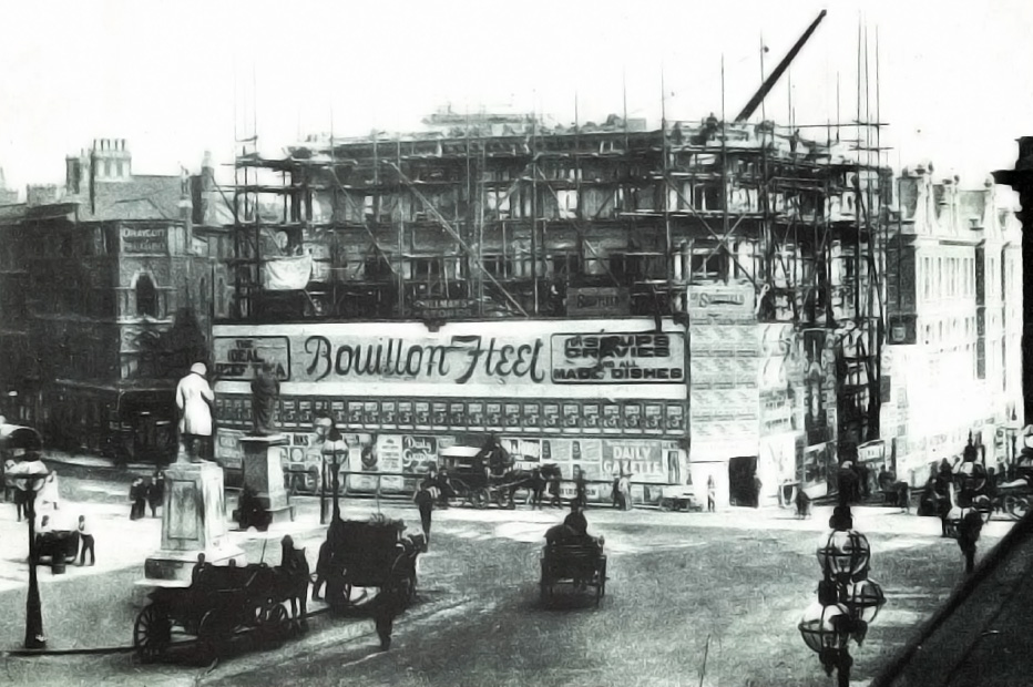 The Old Post Office, Birmingham (now Victoria Square House) during the course of erection which commenced in 1889. Taken from the Town Hall in 1890.